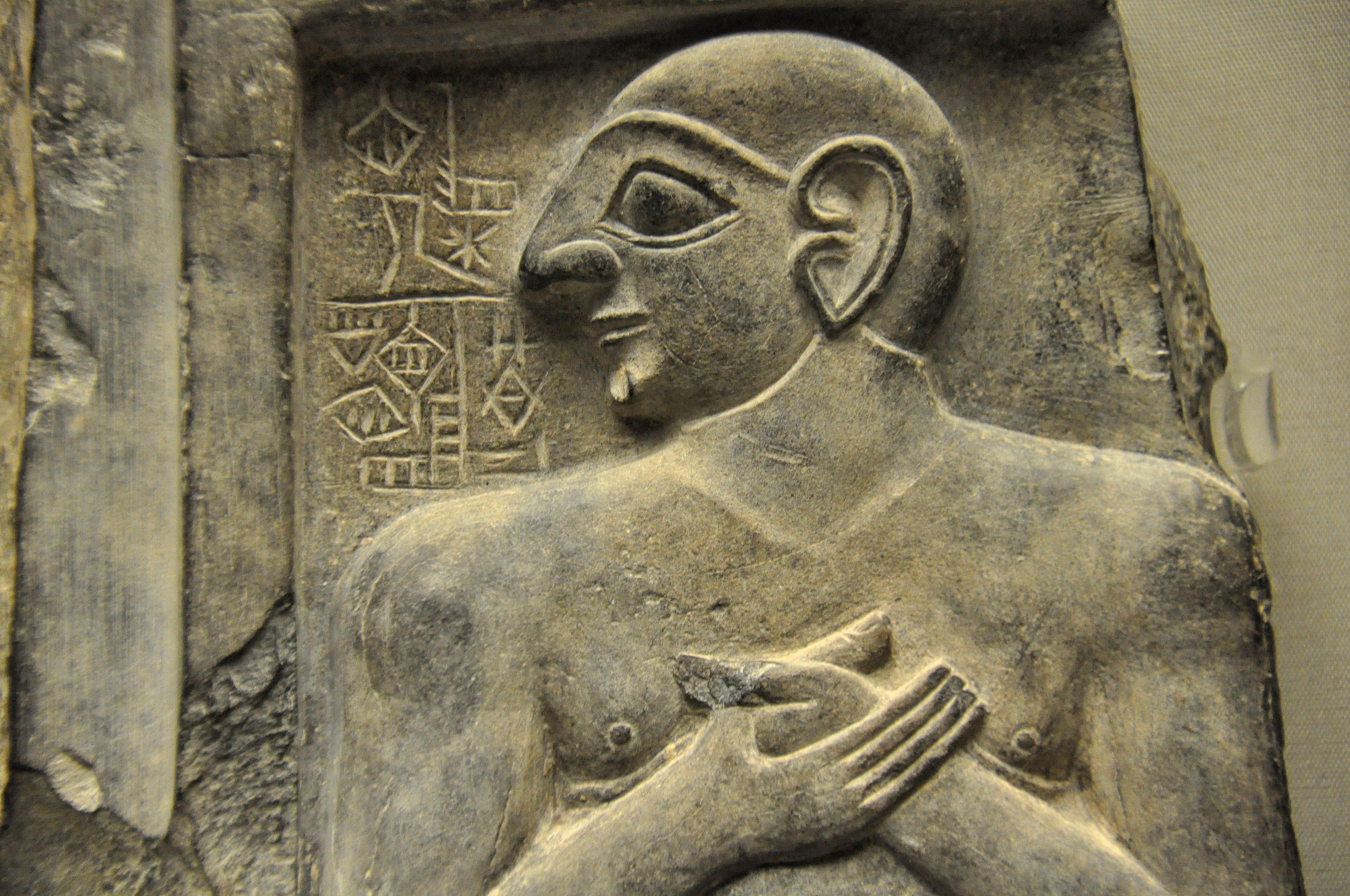 The name of Enannatum I, ruler or king of Lagash is mentioned in this inscribed cuneiform text. The king's hands are folded in worship. Detail of a stone plaque. Early Dynastic Period, c. 2420 BCE. From Girsu, Mesopotamia, modern-day Iraq. The British Museum, London.